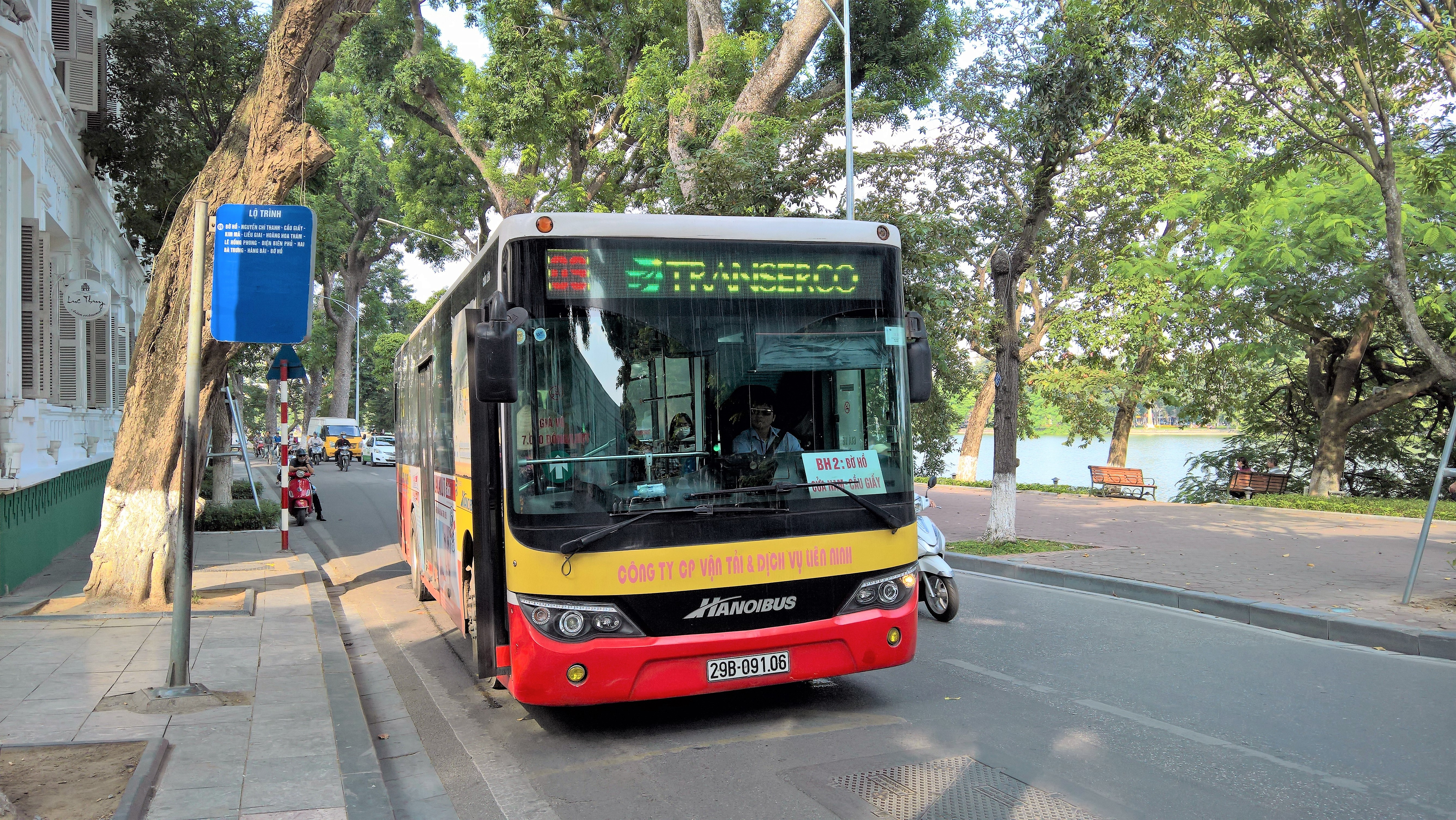 Hanoi bus #09